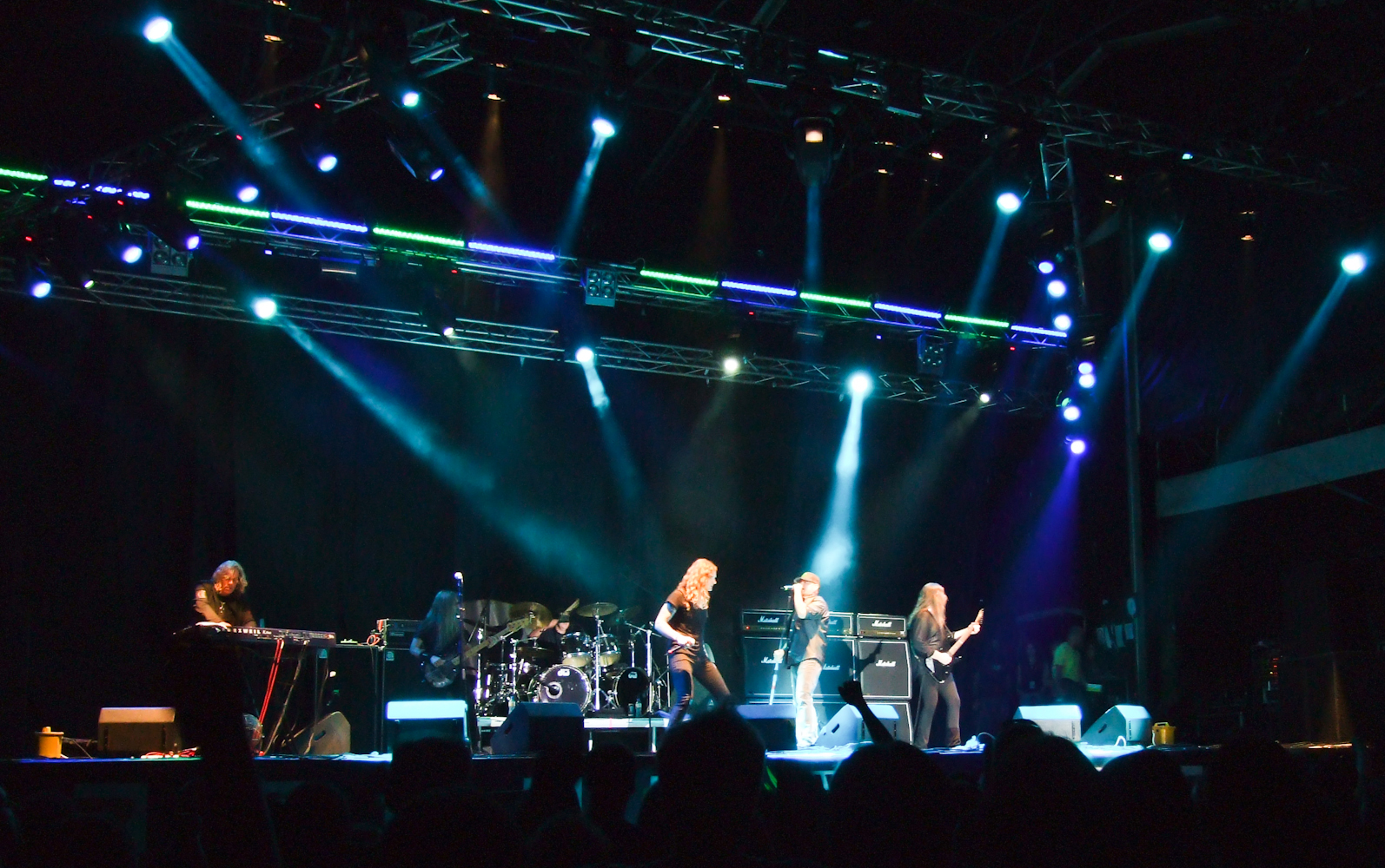 The tribute formation named DIO Disciples performing at Kavarna Rock Fest 2012, Bulgaria. From left to right: Scott Warren – keyboards, James LoMenzo – bass, Simon Wright – drums, Toby Jepson - vocals, Tim Owens – vocals, Craig Goldy – guitar.